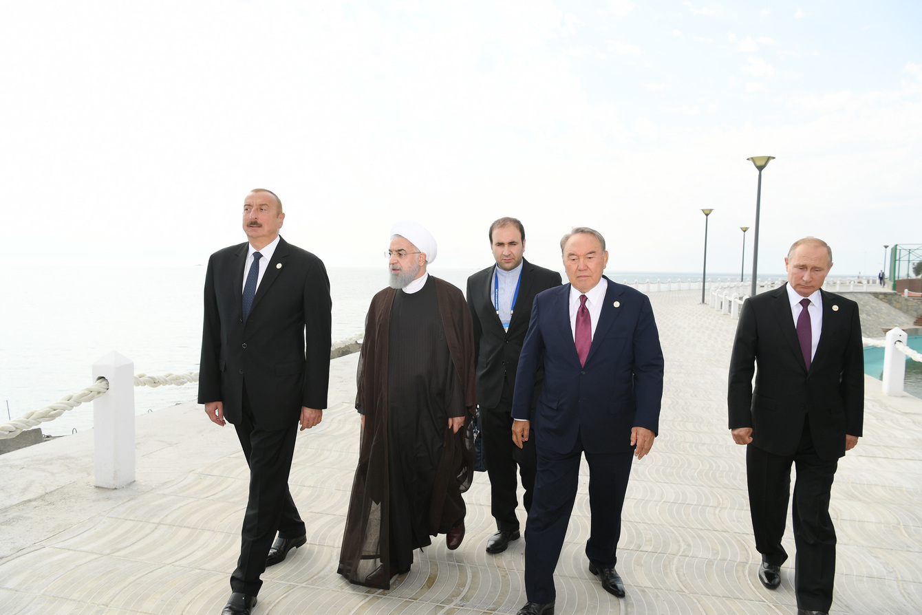 Heads of state attended ceremony to release young sturgeons into Caspian Sea